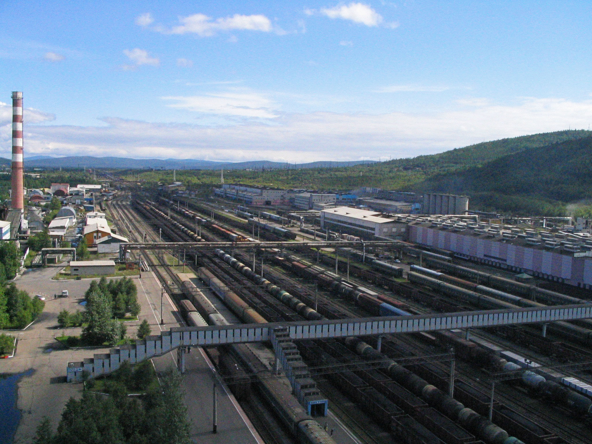 Tynda train station, main view. Amur region